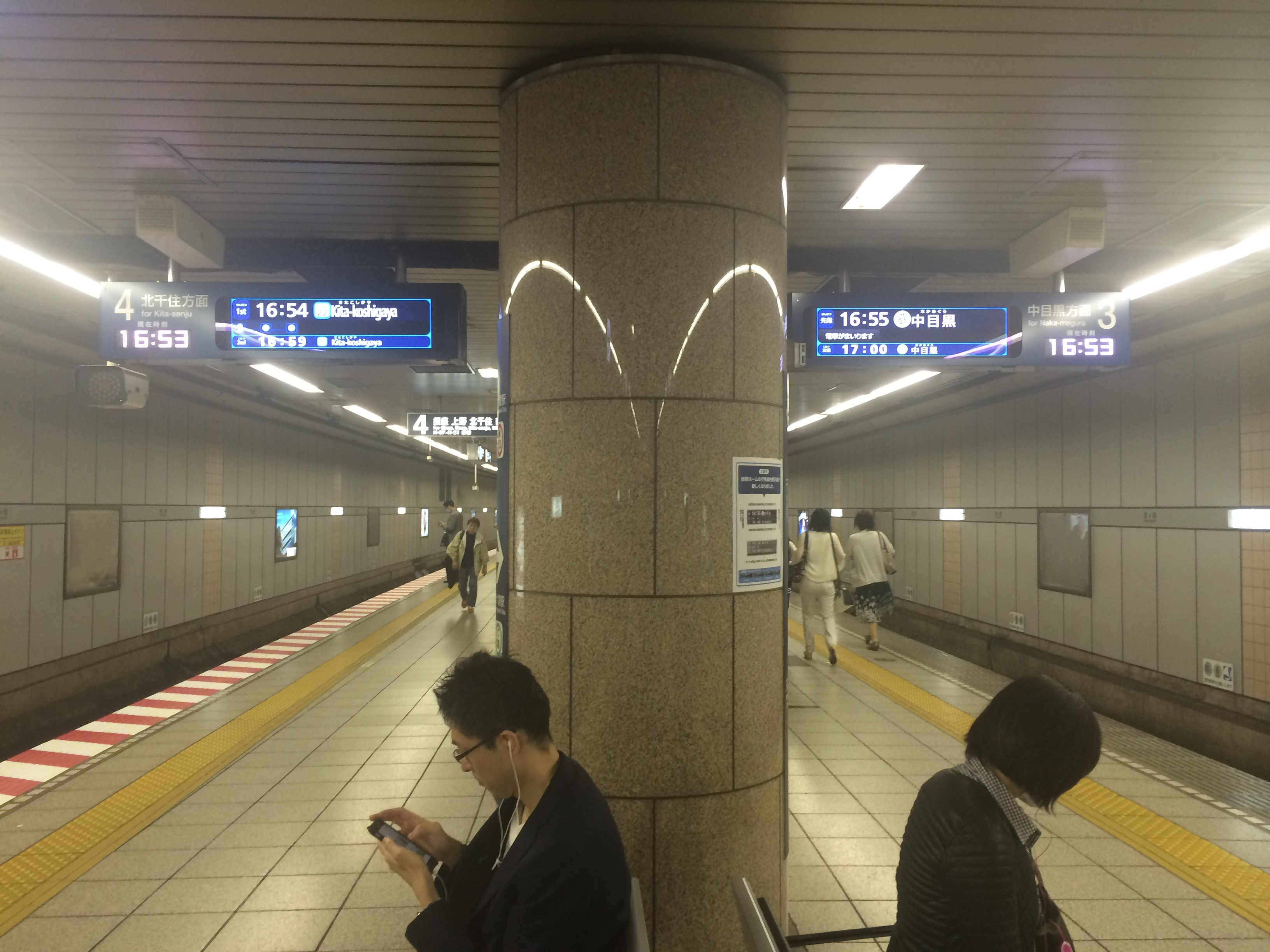 The Tokyo Metro Hibiya Line platforms at Kasumigaseki Station in Tokyo